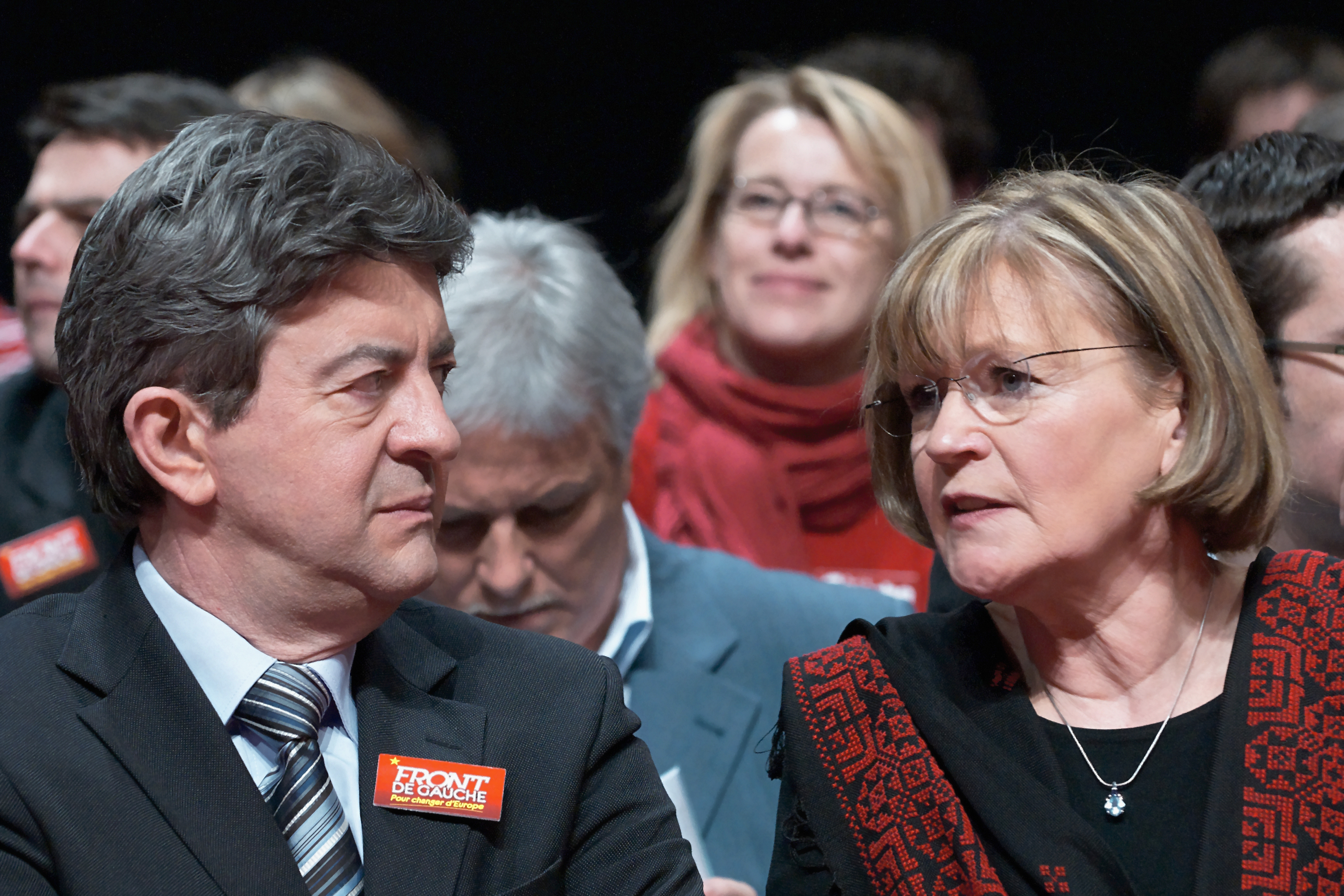 Jean-Luc Mélenchon and Marie-George Buffet during the launch rally of the “Front de Gauche” at the Zenith in Paris, on March, 8 2009. Campaign for the 2009 European elections in France.